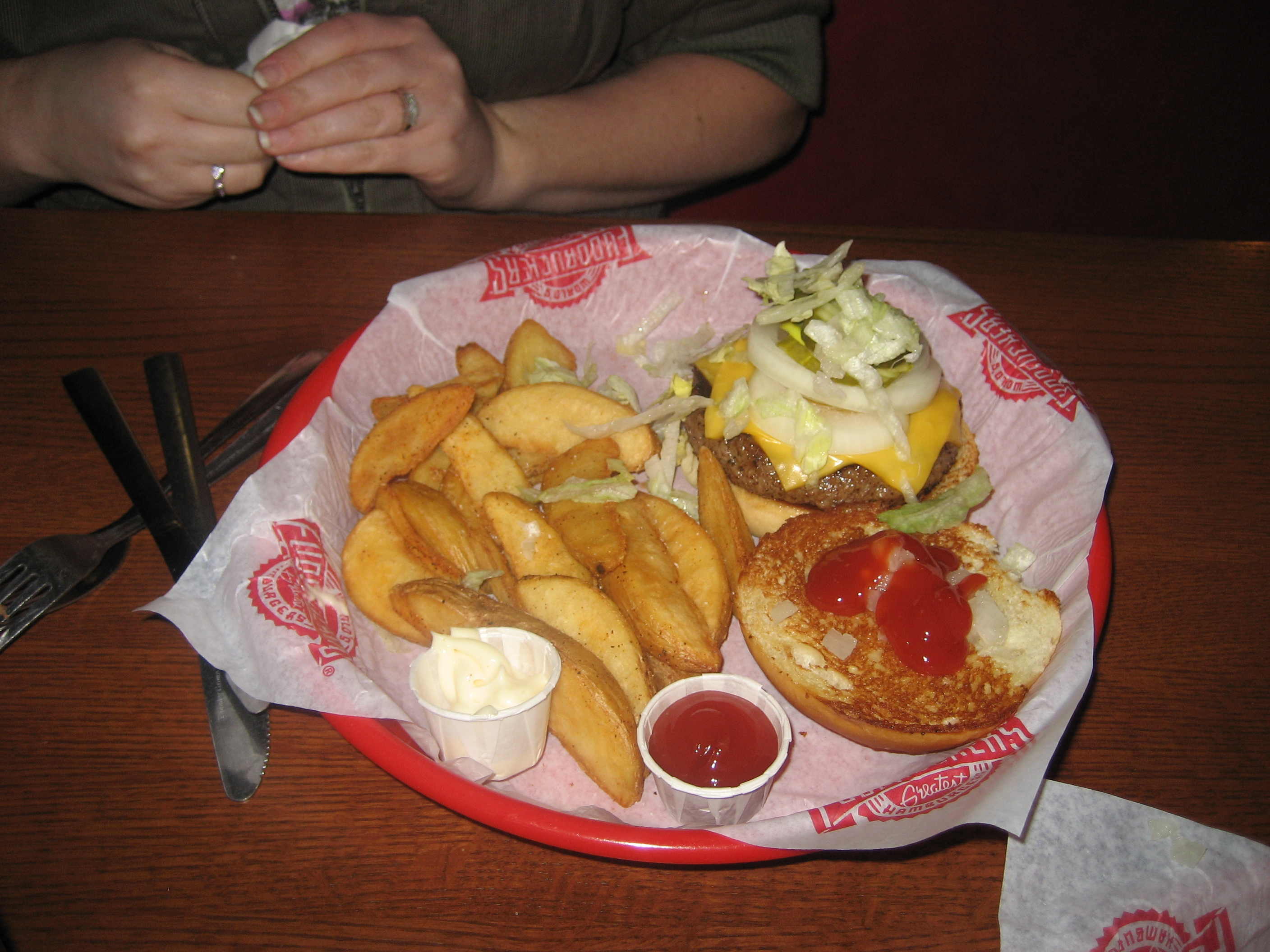 A cheeseburger and French fries on a paper-lined red plastic tray with paper condiment cups of ketchup and mayonnaise as served by a Fuddruckers at 10500 Town and Country Way in Houston, Texas, USA. The open cheeseburger has a toasted bun and is topped with onions, iceberg lettuce, pickle slices, and ketchup. The French fries are seasoned, wedge-cut steak fries.A very good burger